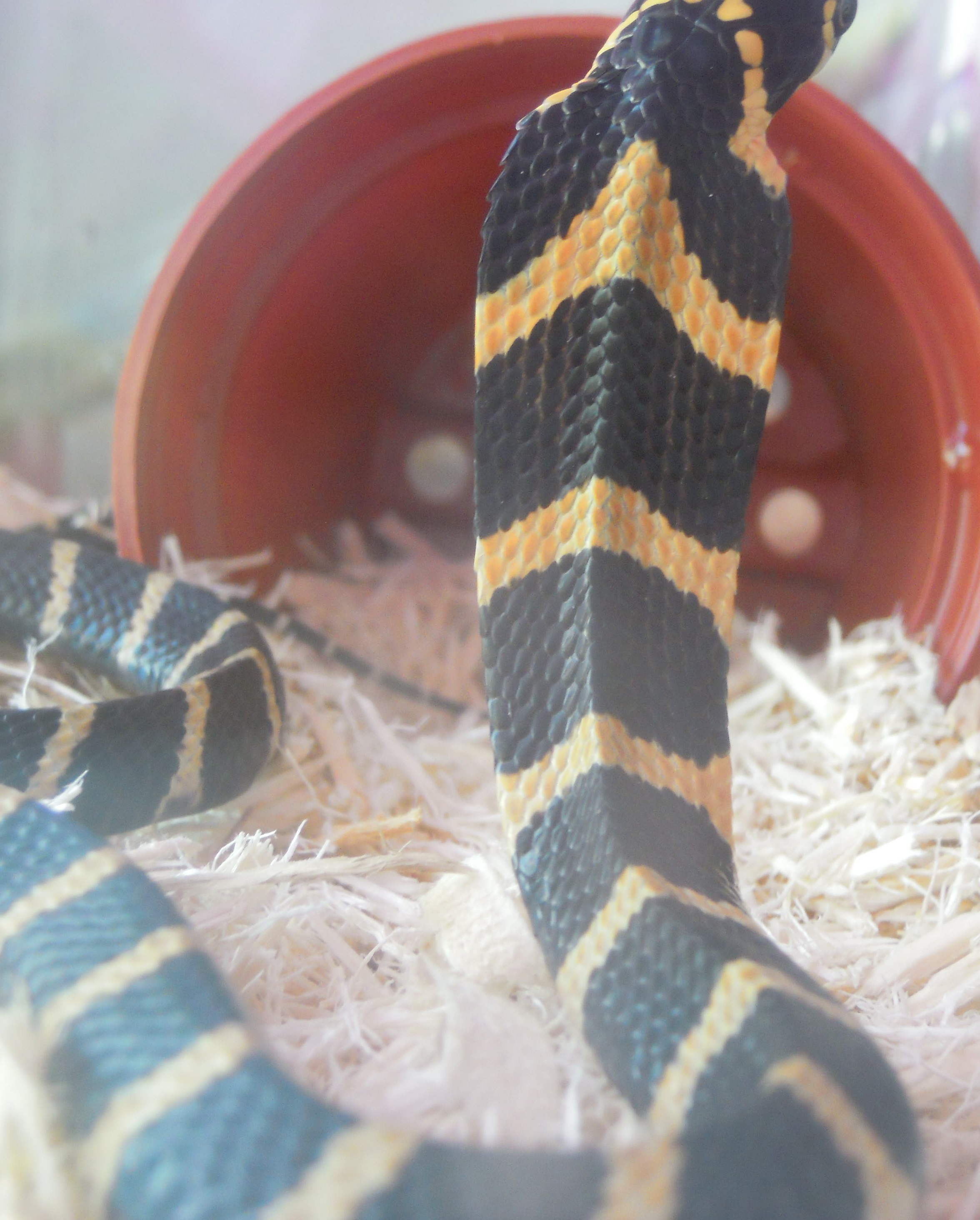 A captive juvenile king cobra with its hood pattern clearly shown.